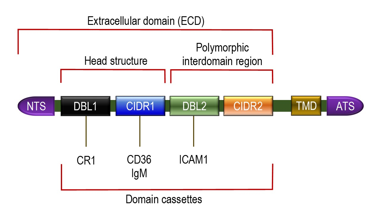 Plasmodium falciparum erythrocyte membrane protein 1 (PfEMP1) basic structure. NTS = N terminal segment. TMD = transmembrane domain. ATS = intracellular acidic terminal segment. [Created using MS Word and PowerPoint 2016]